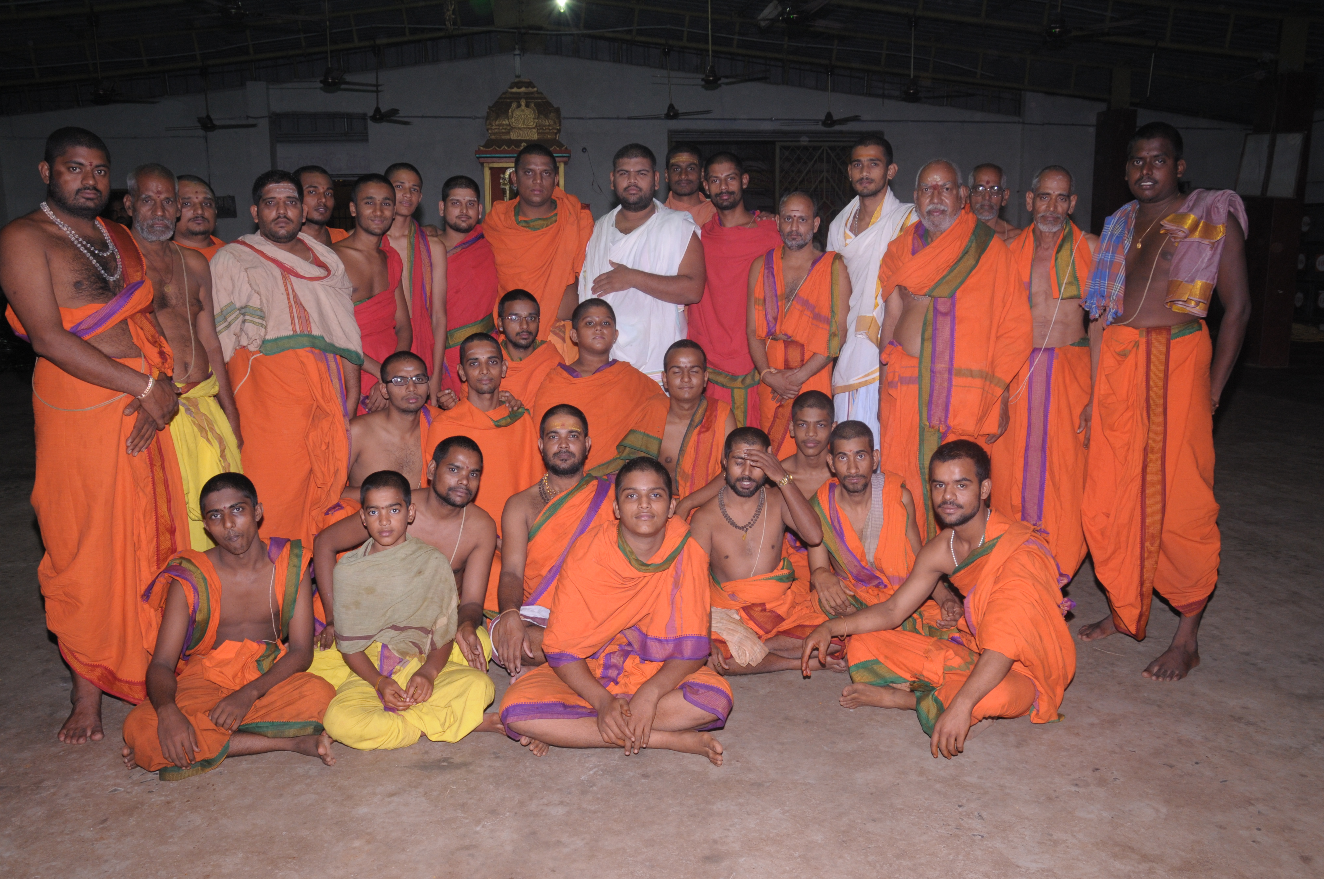 veda panditulu at ahoratram